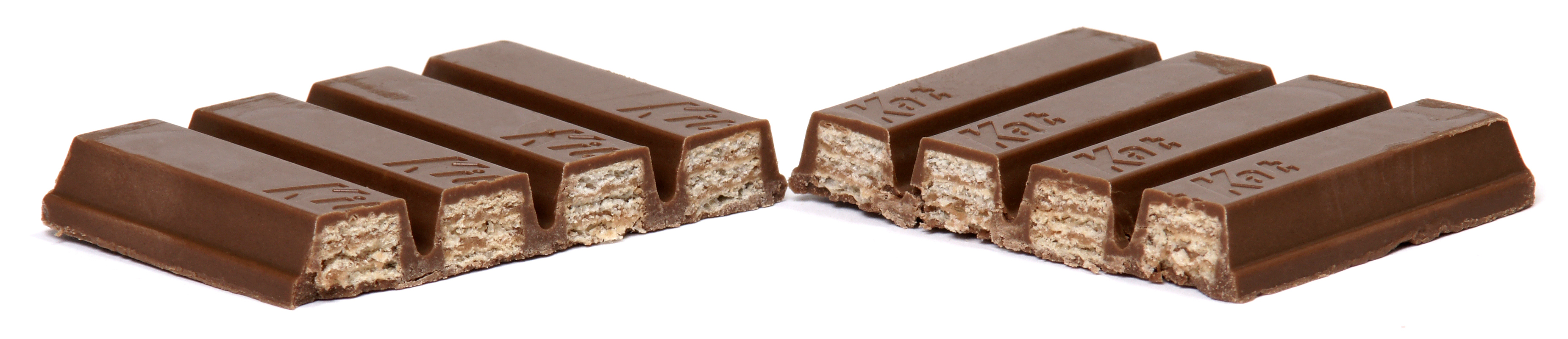 A Kit-Kat that has been split in half.